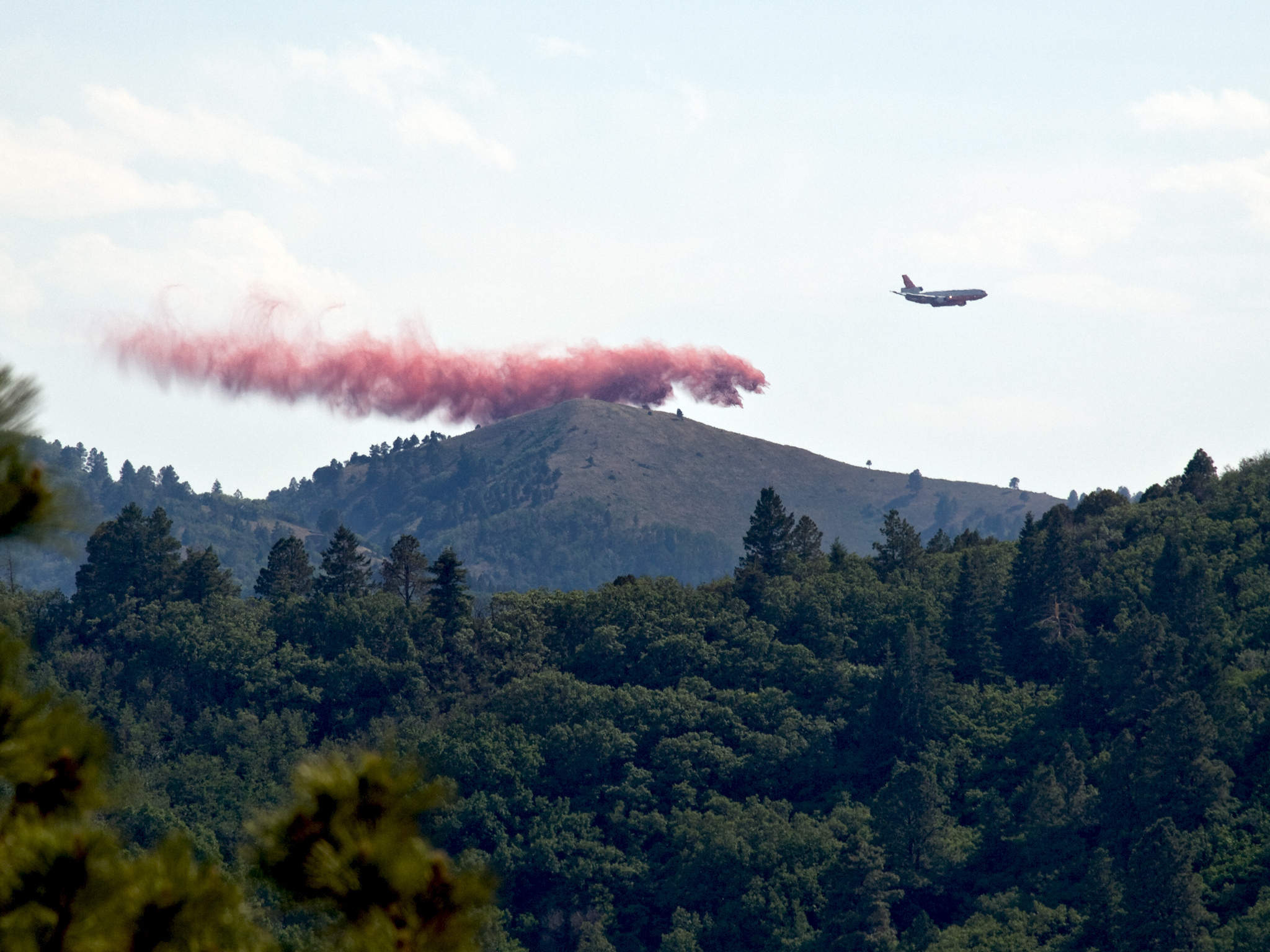 A plane drops fire retardant onto the Little Bear Wildfire in the White Mountain Wilderness area of Lincoln National Forest, NM in June 13, 2012. The wildfire started on June 4, 2012 from a lightening strike. The steep and rugged terrain of mixed conifers makes fighting the fire difficult. The wildfire is 60% contained with over 42, 995 acres burned as of June 21, 2012. USDA FS photo.